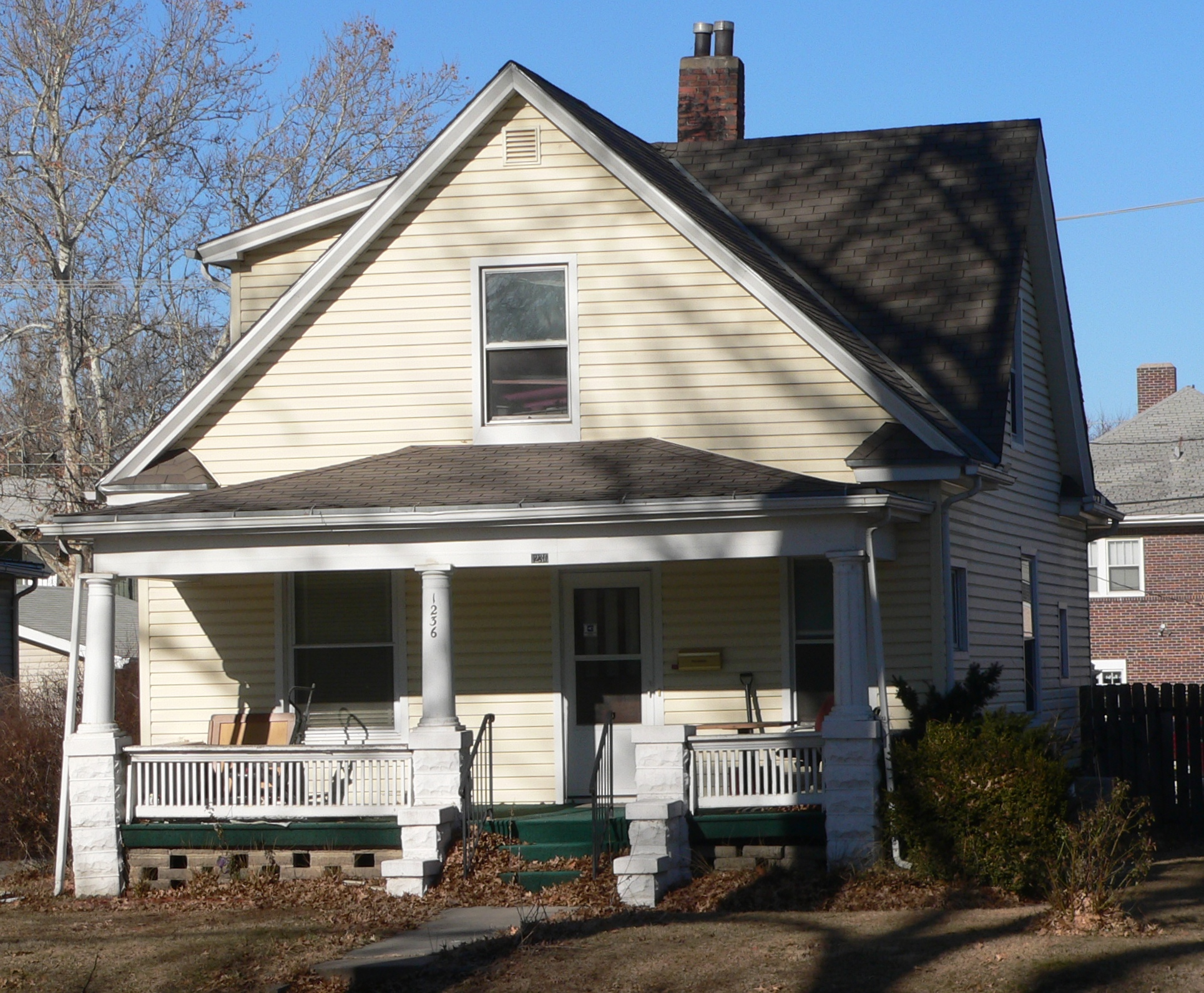 Burckhardt house, located at 1236 Washington Street in Lincoln, Nebraska; seen from the southeast.